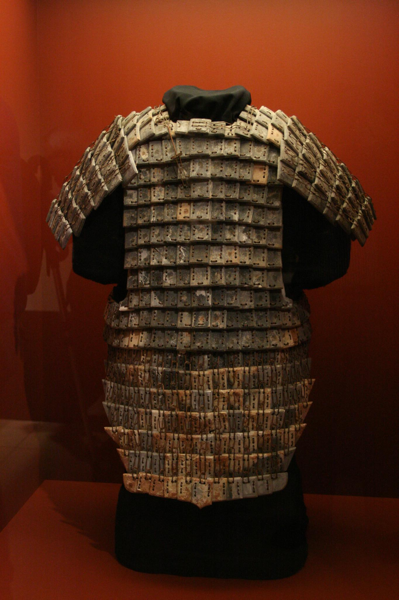 Terra Cotta Warriors: Guardians of China's First Emperor Location: National Geographic Museum Date: Nov. 19, 2009 – March 31, 2010 Website: Overview: "Terra Cotta Warriors: Guardians of China's First Emperor" features the largest number of terra cotta figures ever to travel to the United States for a single exhibition. The exhibition showcases 15 terra cotta figures from the tomb of China’s First Emperor, Qin Shihuangdi, who ruled from 221 B.C to 210 B.C., including nine terra cotta warriors, two musicians, a strongman, a court official, a stable attendant and a horse. The exhibition features 100 sets of artifacts in all, including weapons, stone armor, coins, jade ornaments, roof tiles and decorative bricks, and a bronze crane and swan.